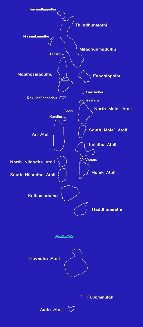 Geographic Atolls of the Maldives